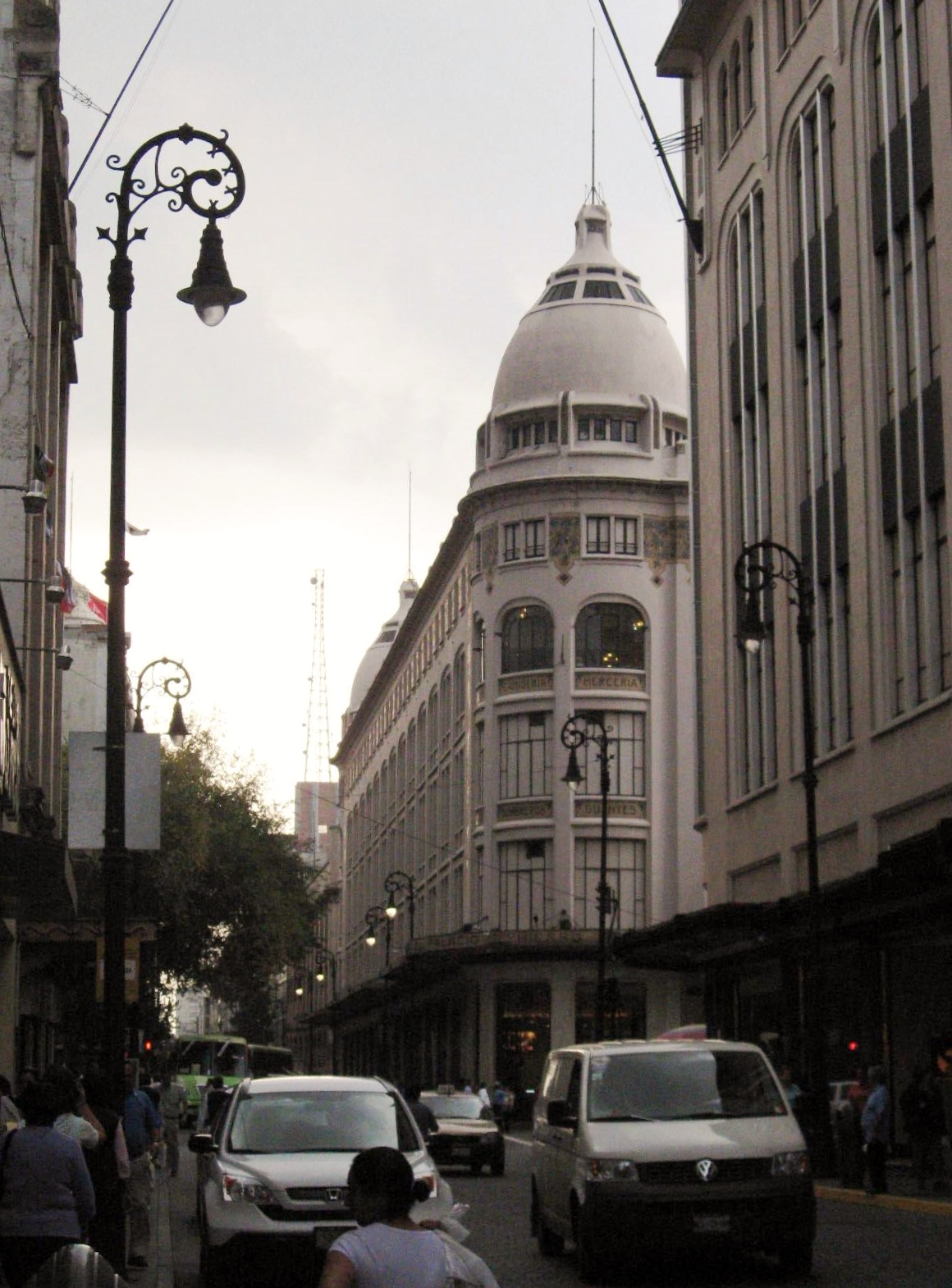 The original Palacio de Hierro story located at the corner of Carranza and 20 de Noviembre streets in the Centro of Mexico City